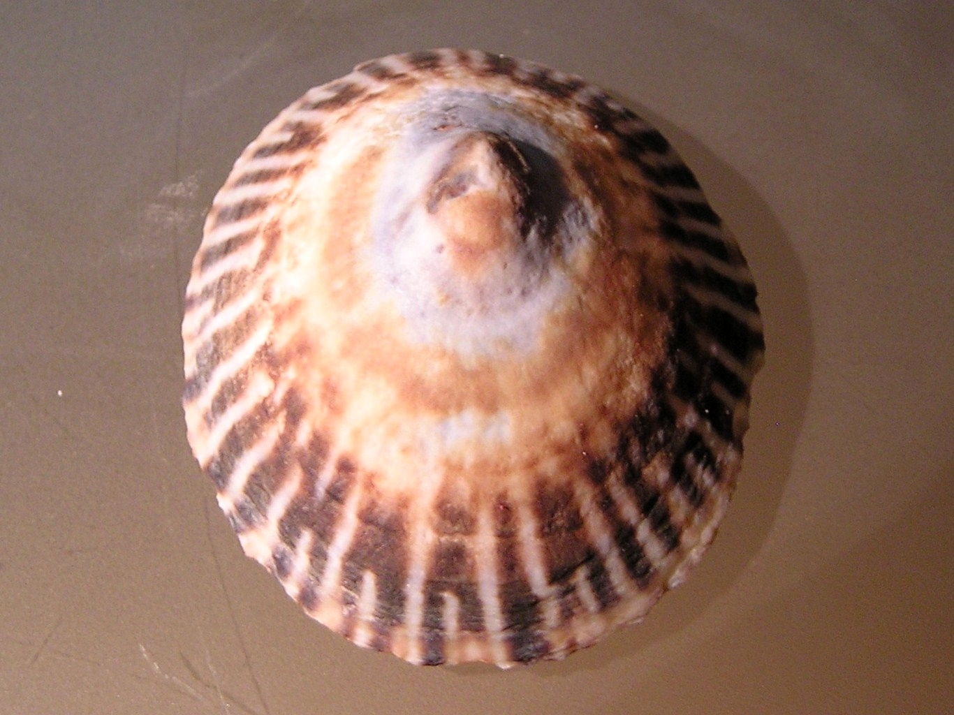 Notoacmaea persona (Eschscholtz, 1833); a limpet from the family Lottiidae; Alaska